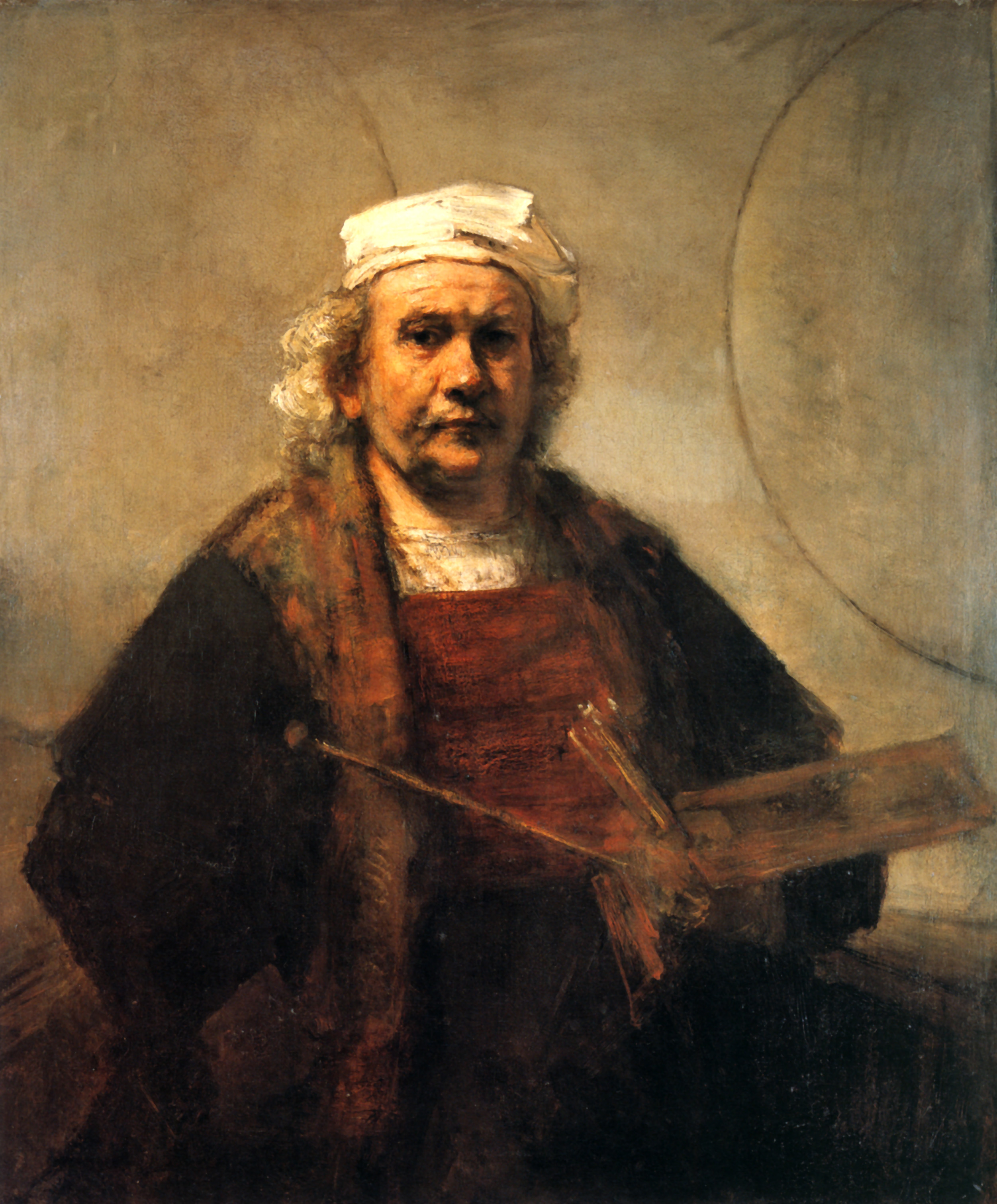 A late self protrait by Rembrandt, from a period when he had lost most of his fortune.